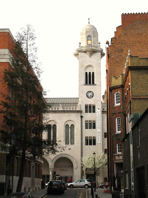 Cadogan Hall, Sloane Terrace, SW1